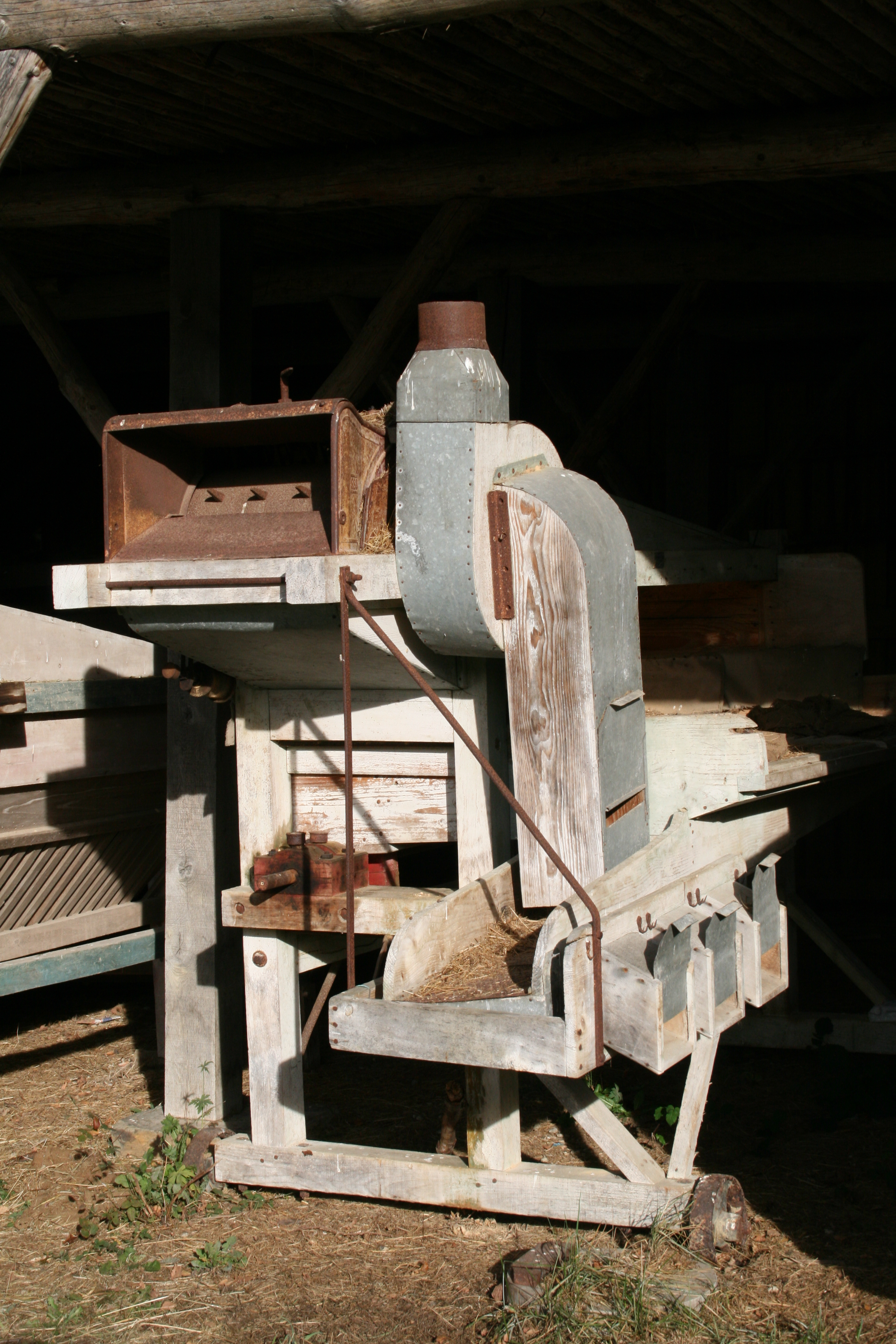 Old threshing machine - Museum of Country Life in Wallonia – Saint-Hubert (Belgium). Walon: Vîye bateûse - Domin.ne do Fornê Sint-Michèl – Muséye dol Vîye dol Campagne è Walonîye – Sint-Houbêrt.